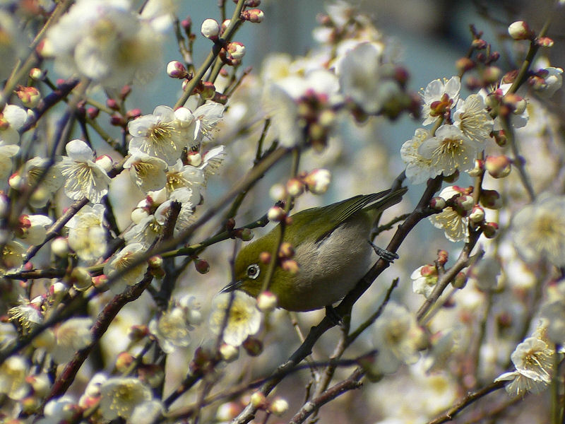 with "Ume" (Prunus mume).